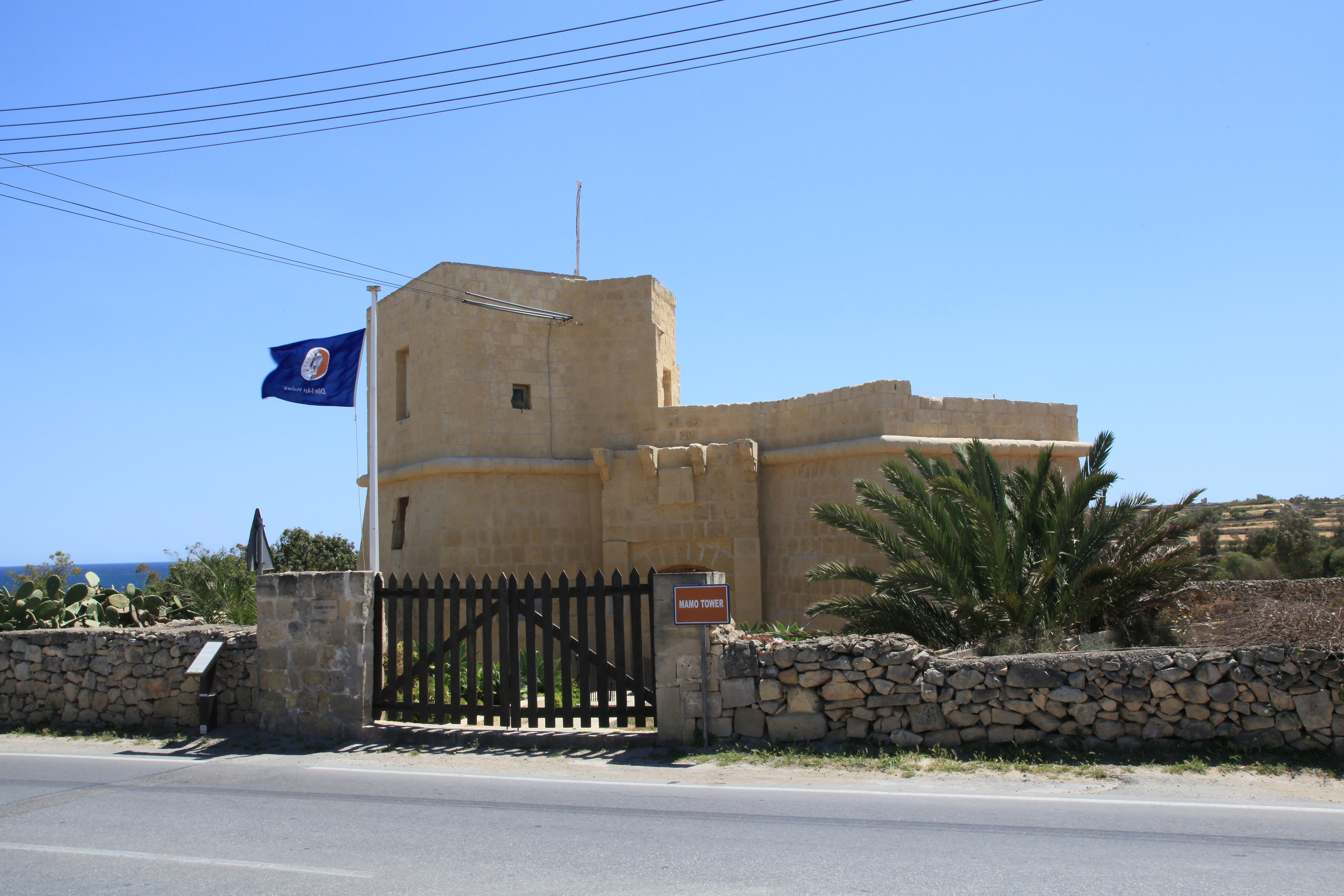 Mamo Tower at Triq id-Dahla ta' San Tumas in Marsaskala, Malta